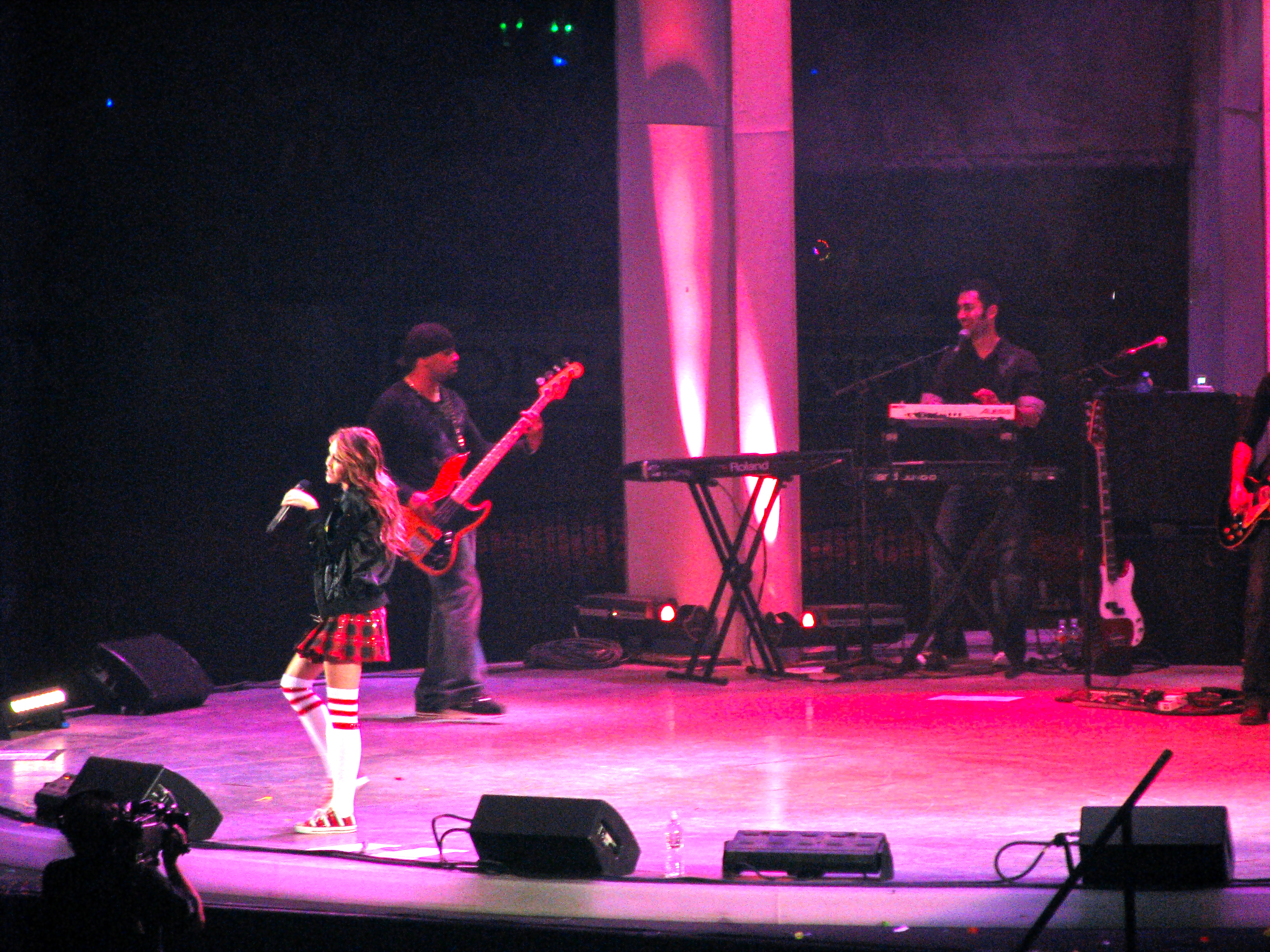 A teen singing.